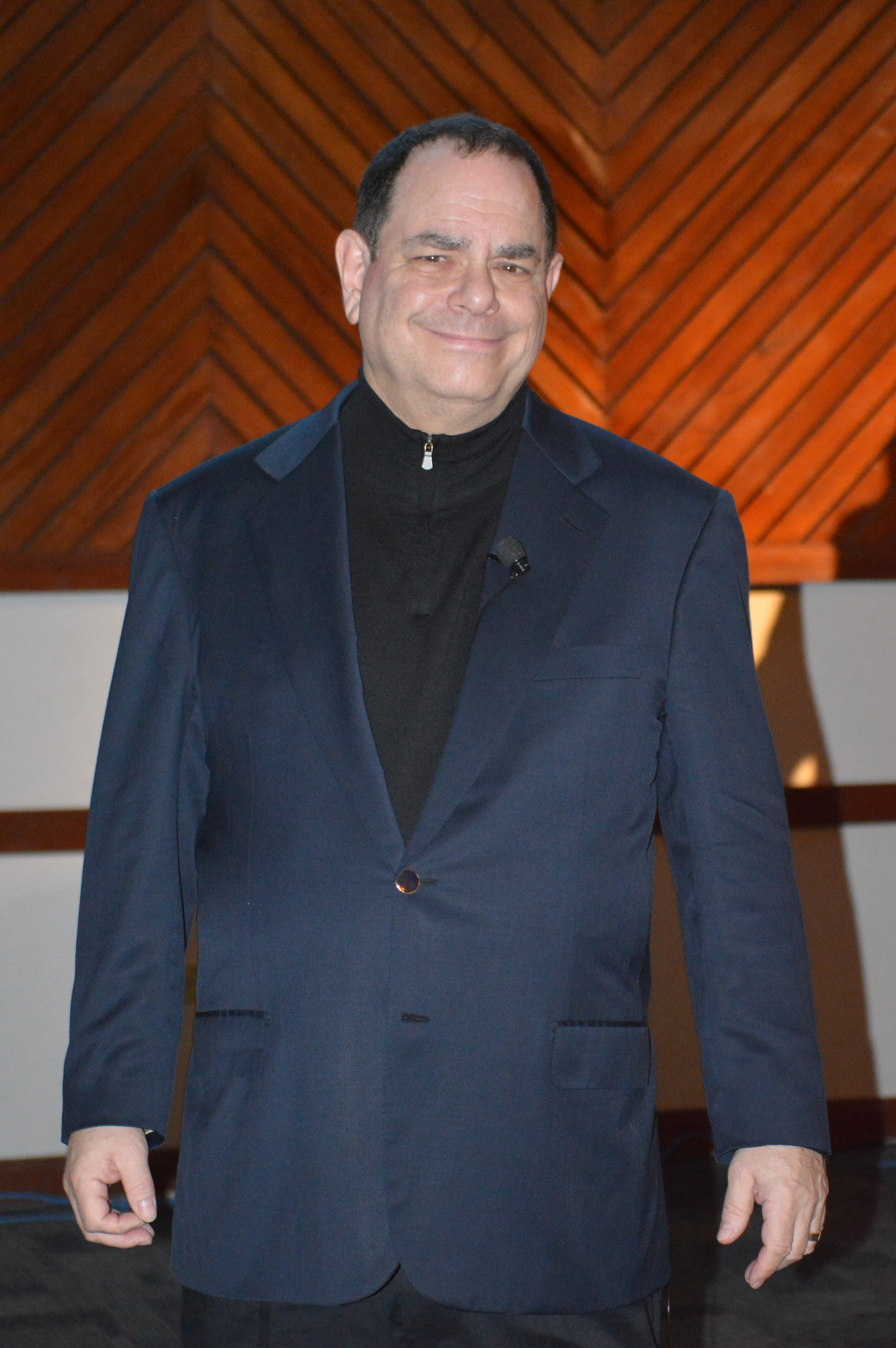 Marc Prensky at the 8o Congreso de Innovación y Tecnología Educativa at ITESM Campus Monterrey